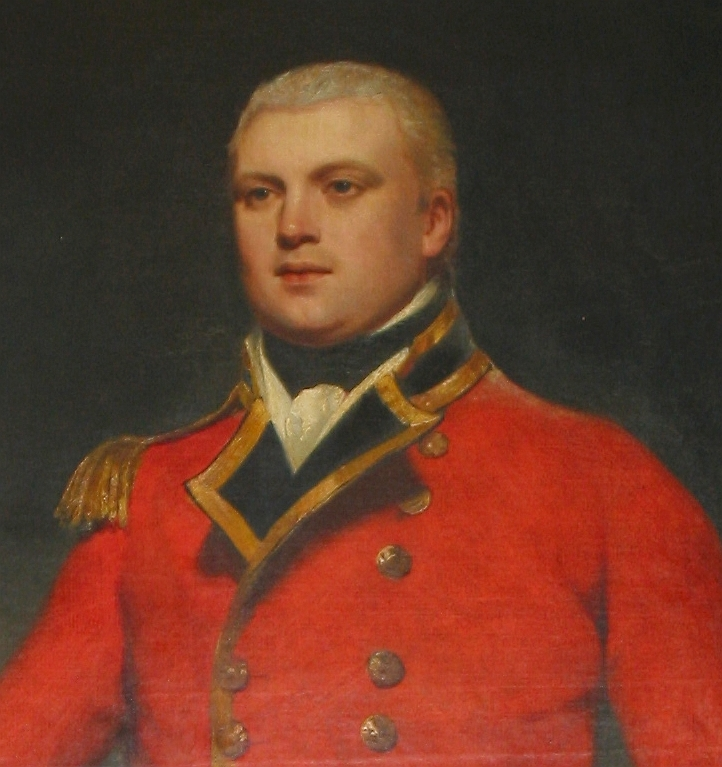 Portrait by unknown artist of General Sir (Tomkyns) Hilgrove Turner, (12 January 1764 – 6 May 1843) Lieutenant Governor of Jersey